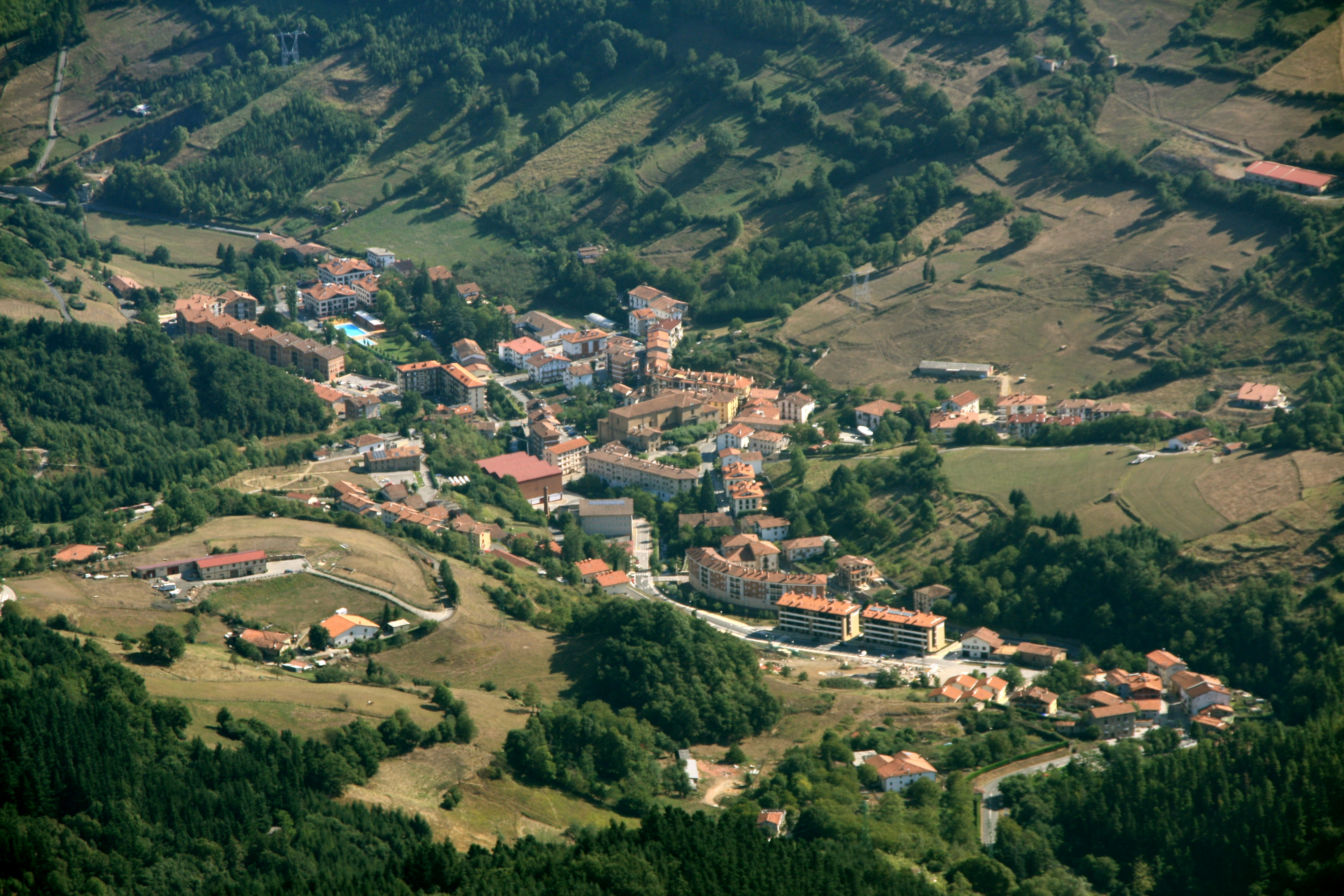 The town of Zegama seen from Aizkorri